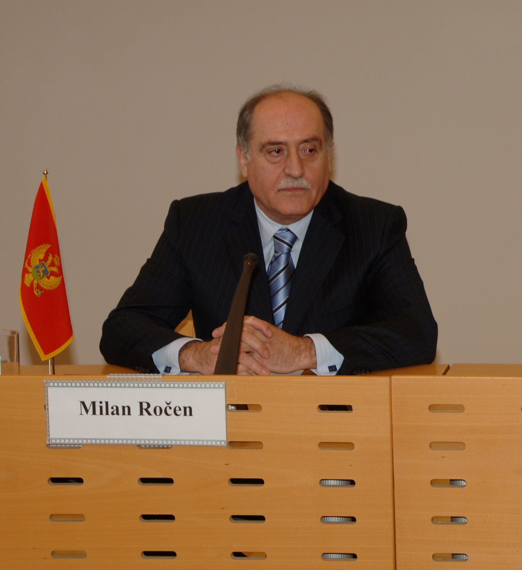 Minister of Foreign Affairs of Montenegro Milan Roćen.